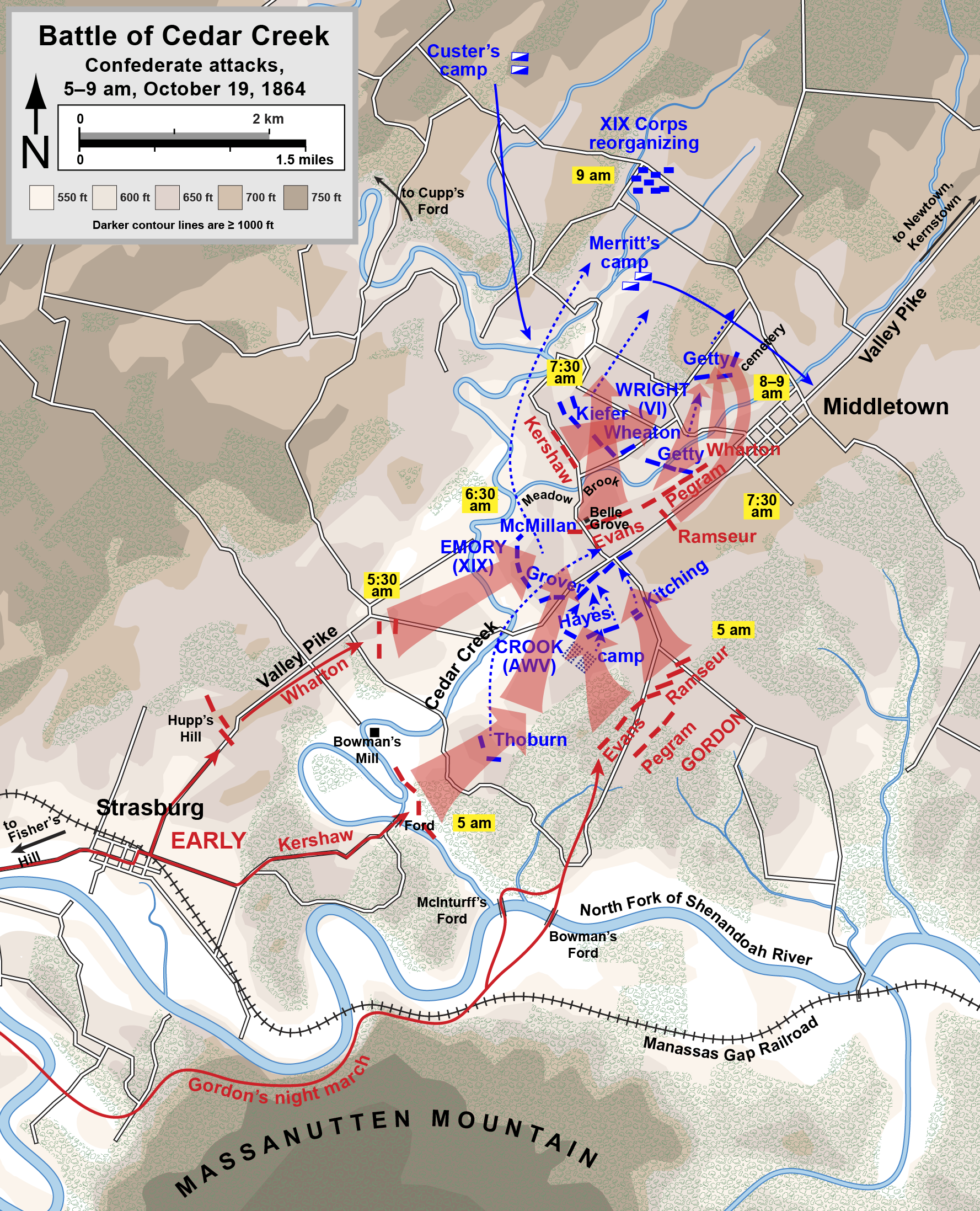 Map of the Battle of Cedar Creek of the American Civil War, 1 of 2, drawn in Adobe Illustrator CS5 by Hal Jespersen. Graphic source file is available at